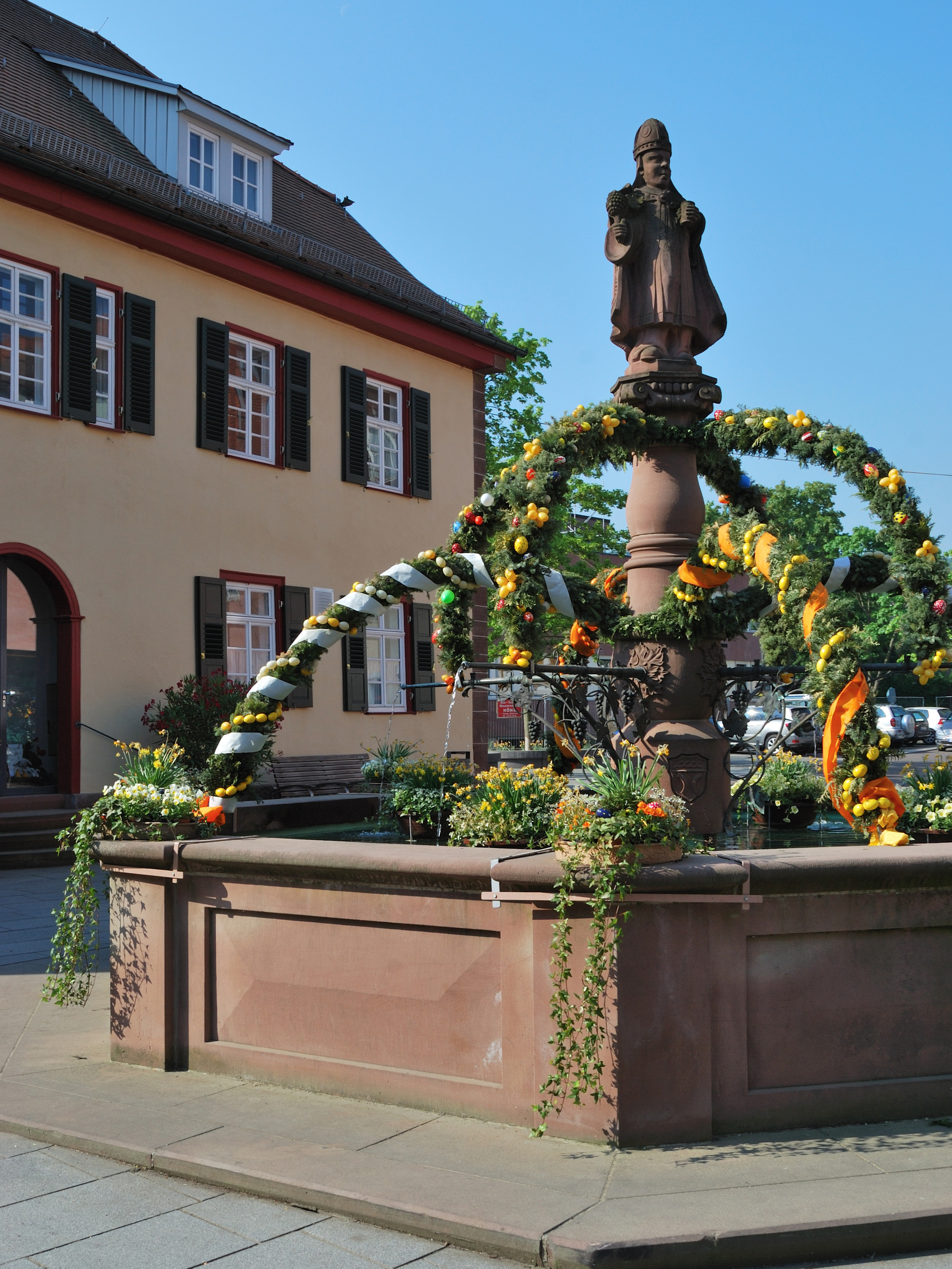 The decorated Urban-well in front of the Old Town Hall in Gerlingen in Southern Germany. Urban is the patron saint of the wine-dressers.